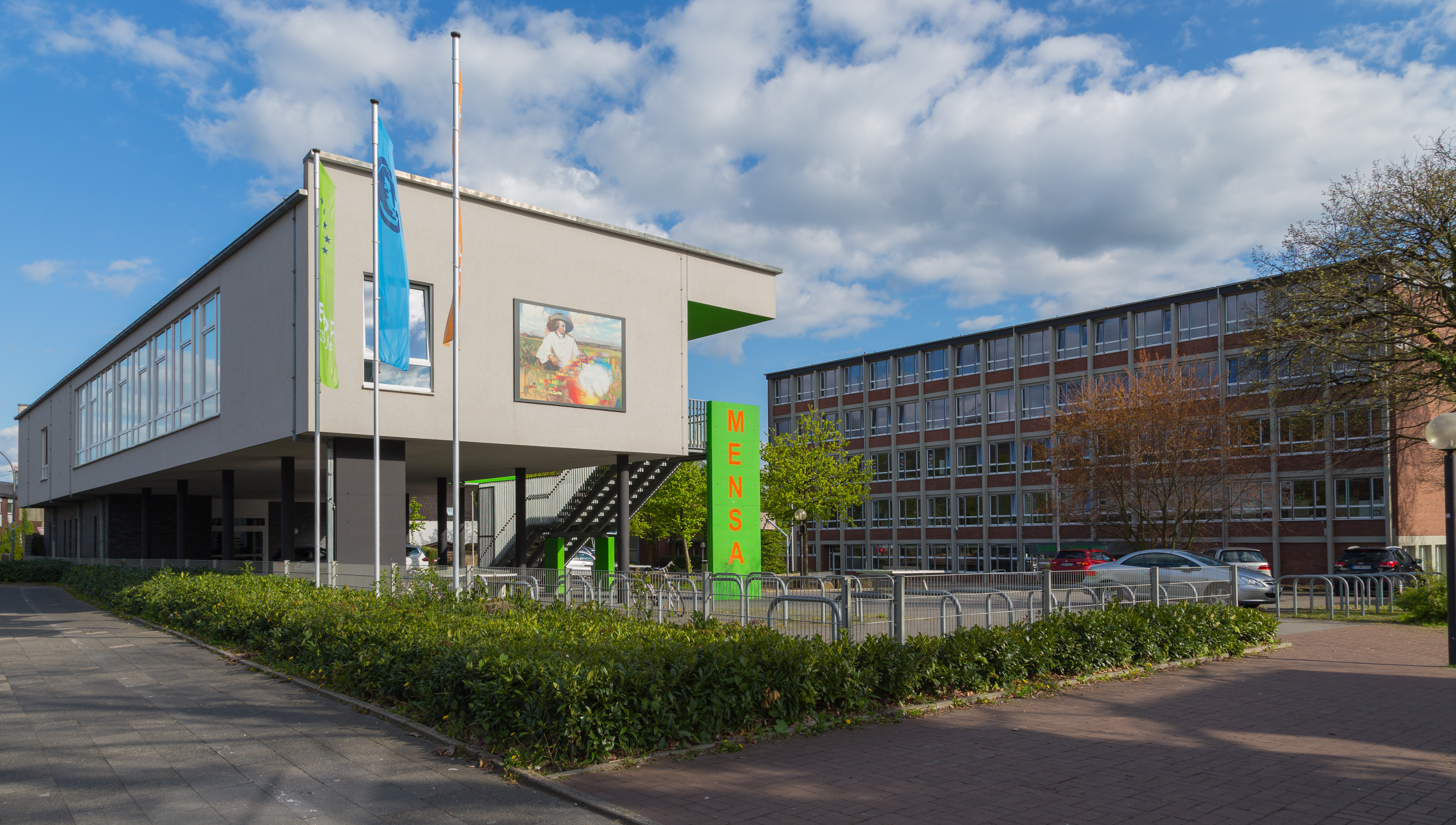 Städtisches Goethe-Gymnasium with it's student food court (left) in Ibbenbüren, Kreis Steinfurt, North Rhine-Westphalia, Germany.